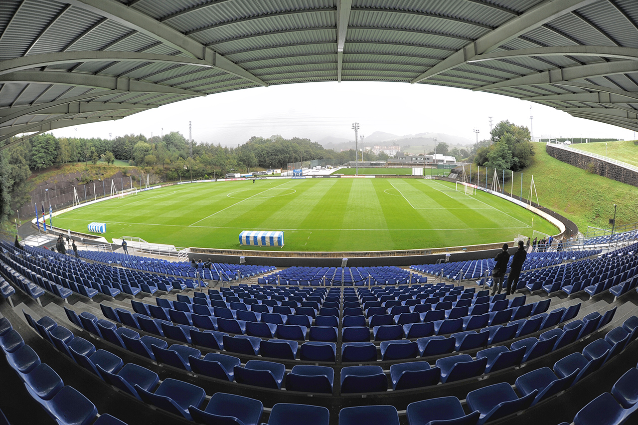 Zubieta Facilities in Donostia-San Sebastián, Basque Country, Spain